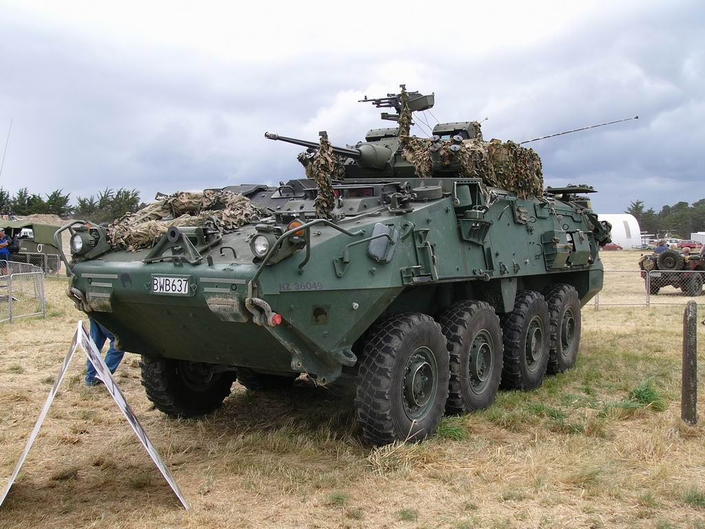 A NZLAV on display at an air show during 2009